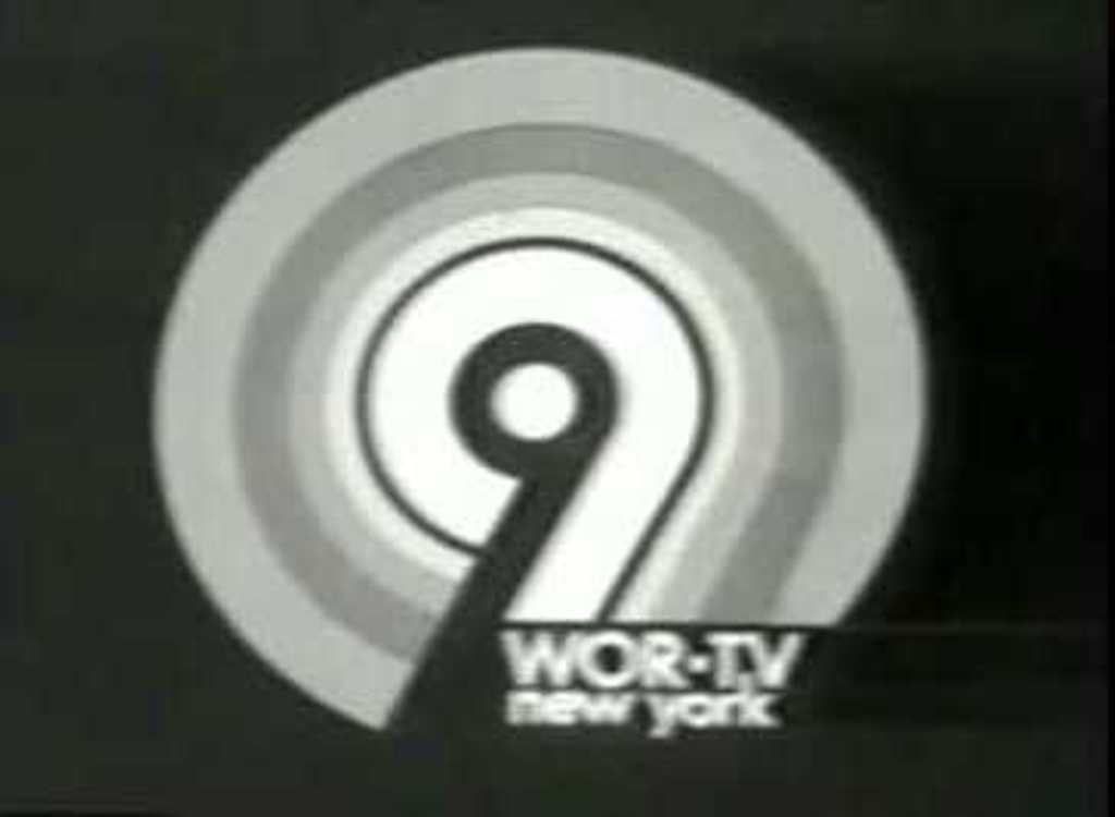 1971 WOR-TV (Ch. 9) "rainbow" "Dotted 9" I.D. slide